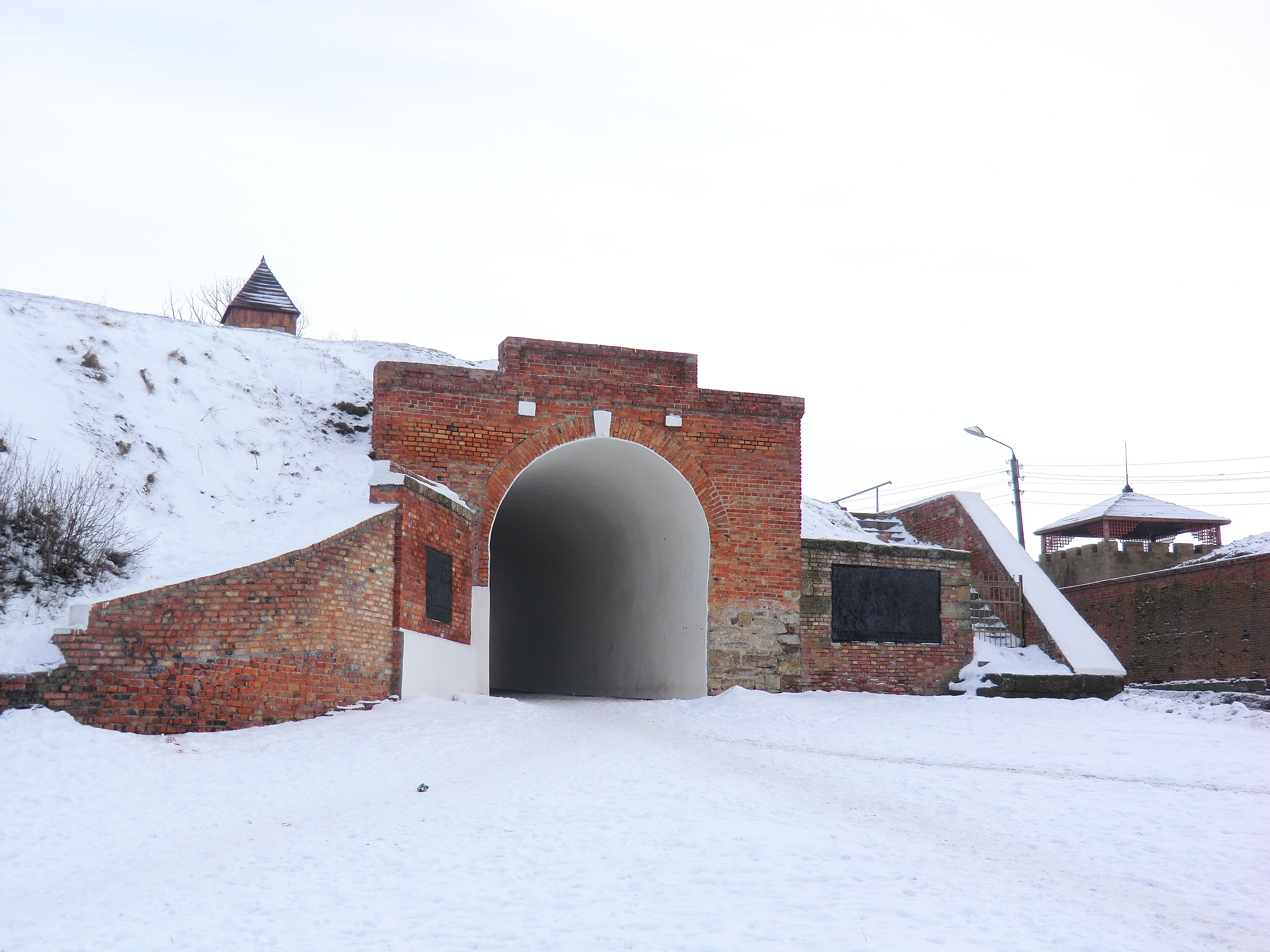 Alexeyevsky Gate and earthen shaft of the Azov Fortress